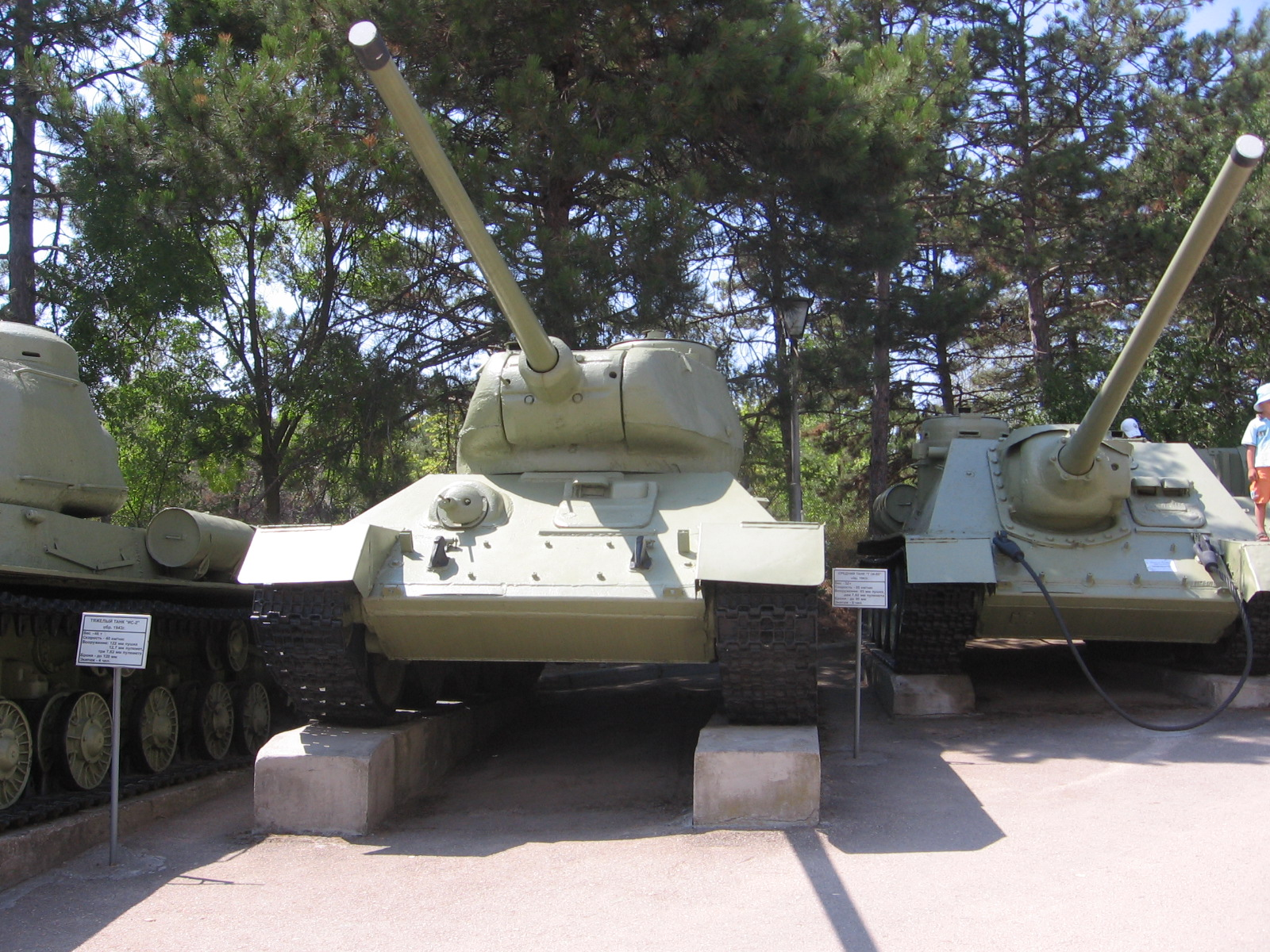 Soviet T-34-85, since 1960 displayed at the Museum of Heroic Defense and Liberation of Sevastopol on Sapun Mountain in Sevastopol.